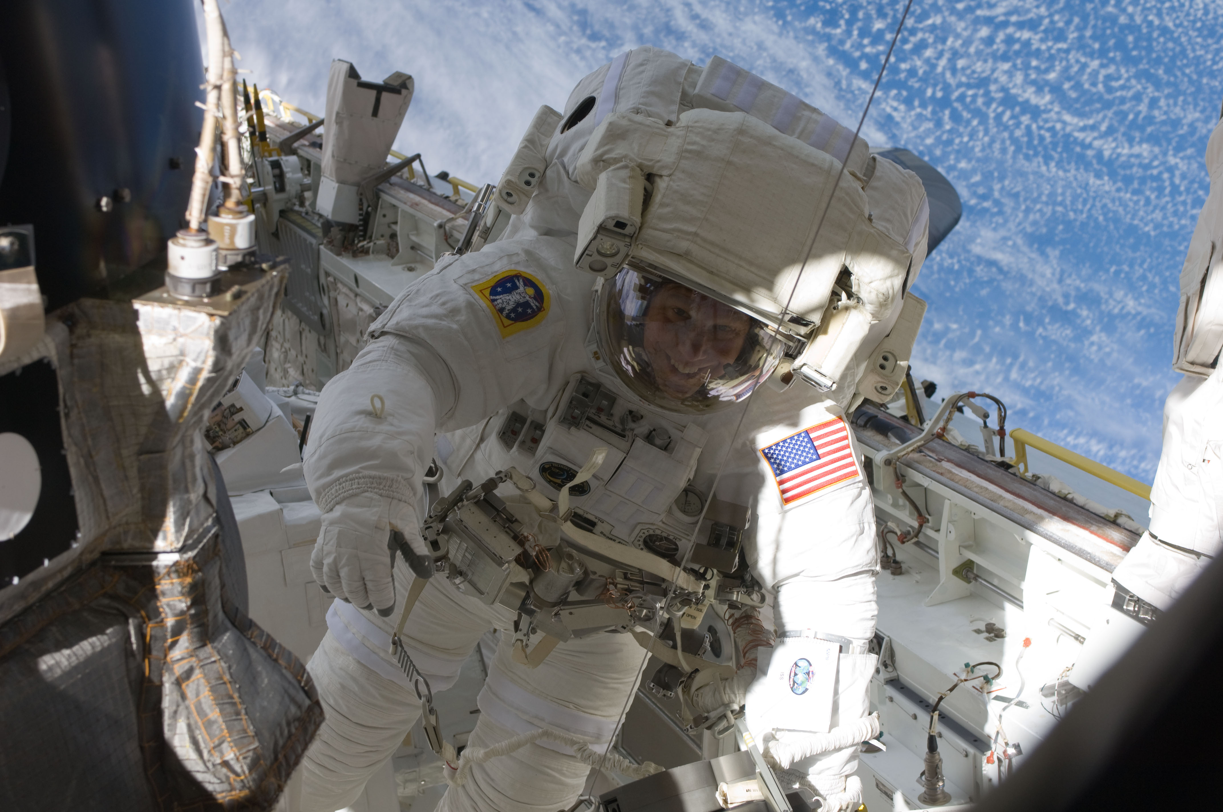 Astronaut Tim Kopra, mission specialist, is pictured in Endeavour's cargo bay during the first of five planned spacewalks to be performed on the International Space Station by the STS-127 crew. When the Endeavour crew returns to Earth, Kopra will stay onboard to serve as flight engineer for ISS expedition duty.